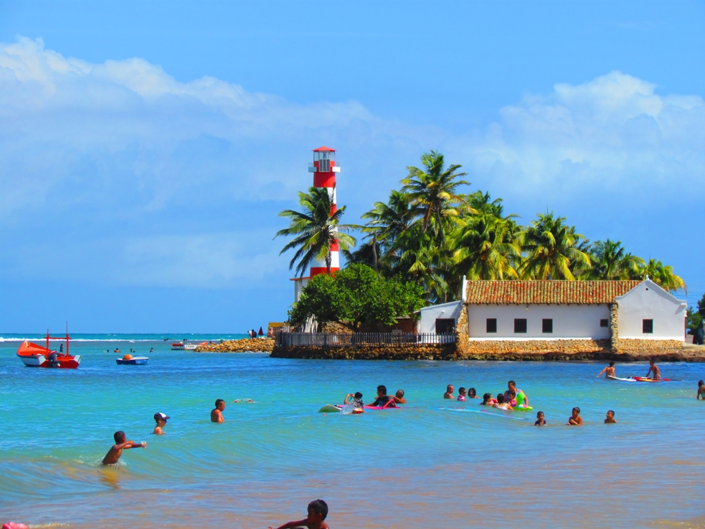 Playa Punto Fijo